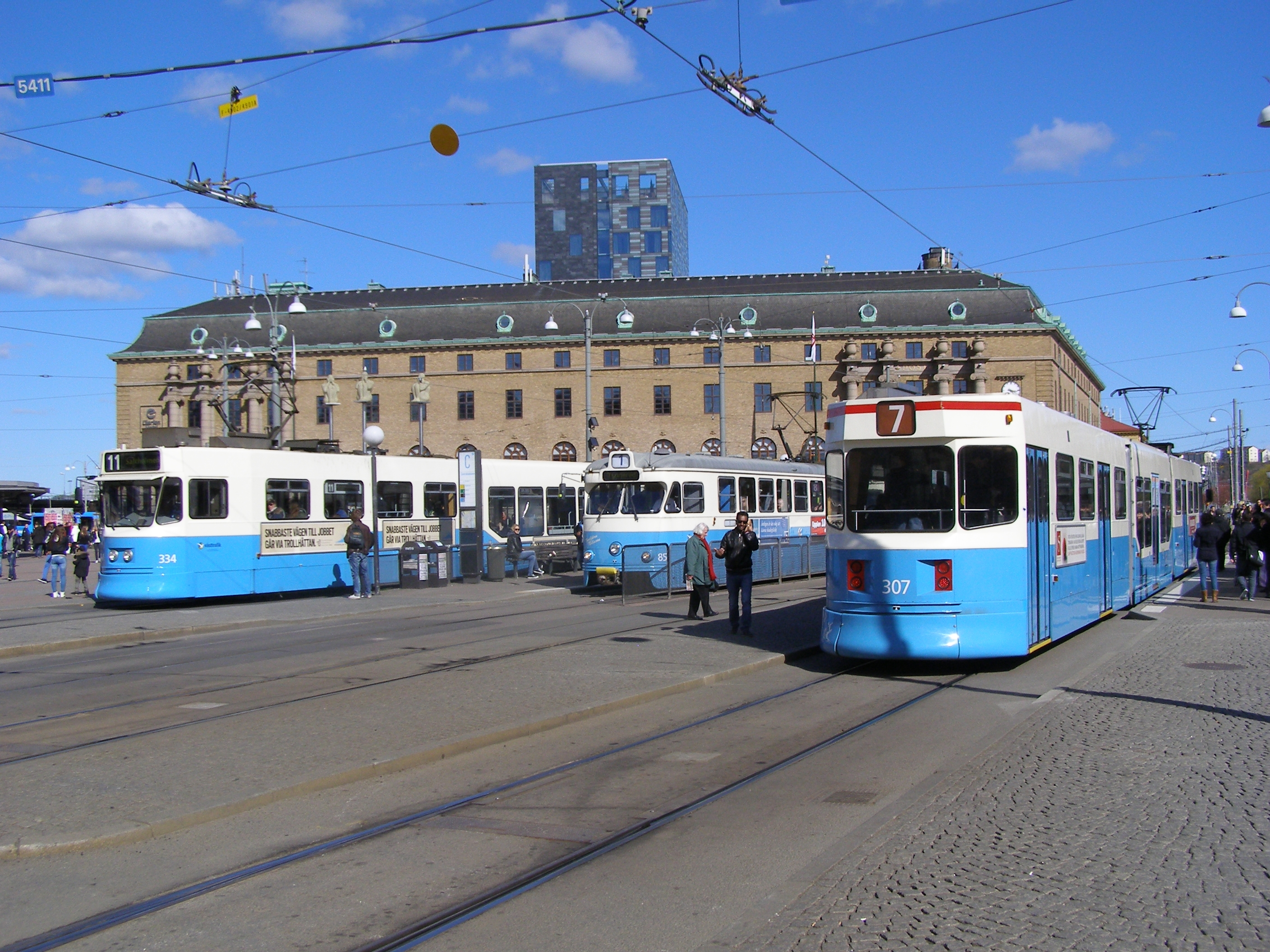 Gothenburg - Drottningtorget tram stop with Clarion Hotel Post in the background